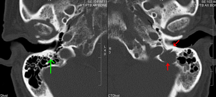 This 59 year-old patient presented with a left facial droop and a known history of multiple myeloma. A CT brain was performed looking for a cerebral cause. The brain appeared normal. Close inspection revealed a lytic lesion in the left temporal bone, and focused reconstructions of the petrous temporal bones confirmed a lytic lesion involving the mastoid segment of the facial nerve canal. Red arrows: lesion; green arrow: normal contralateral facial nerve canal. The lytic lesion was one of many in the skull and is consistent with a myeloma deposit.